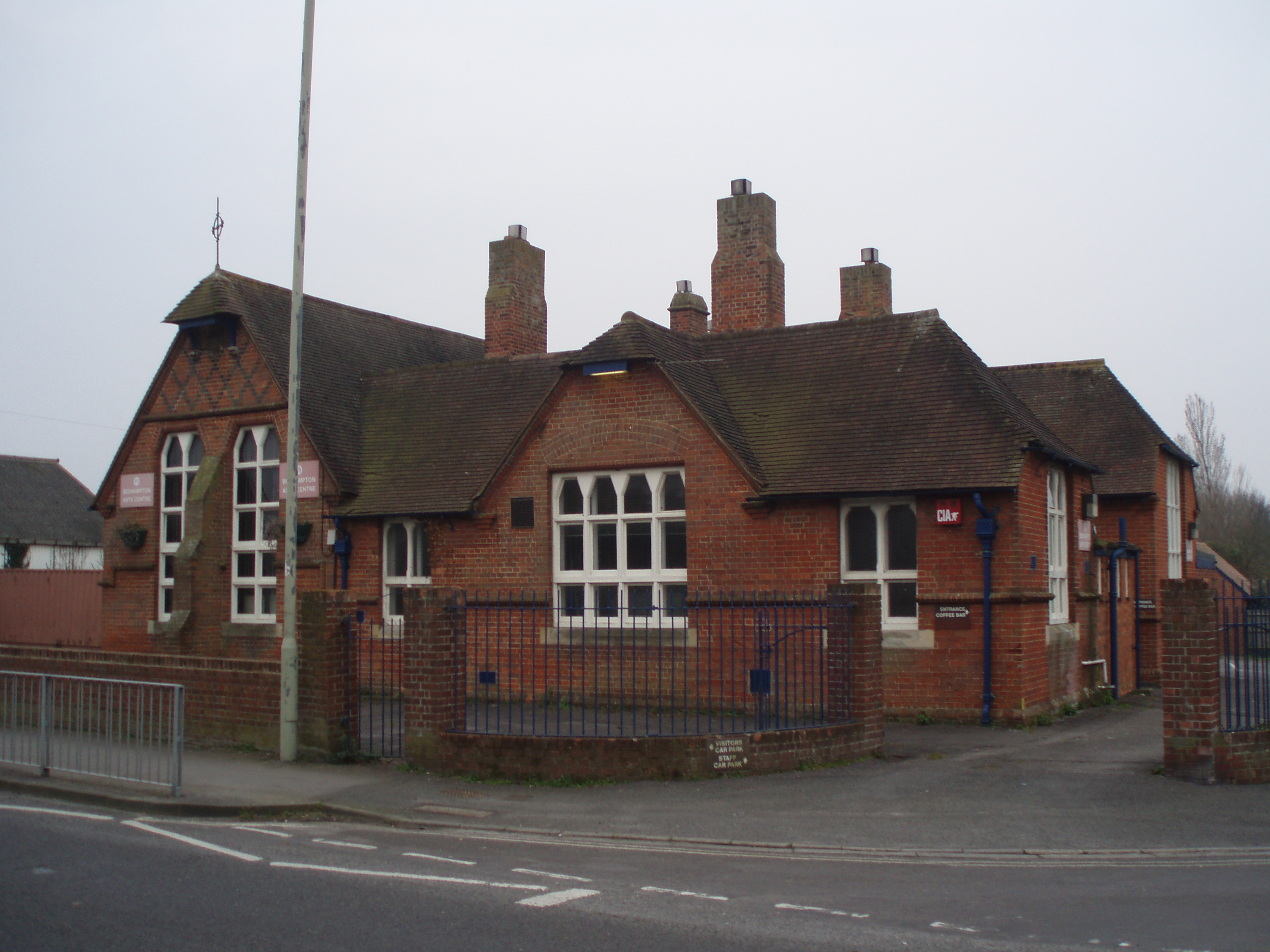 Photo taken by M Eyre Sunday 25th March 2007